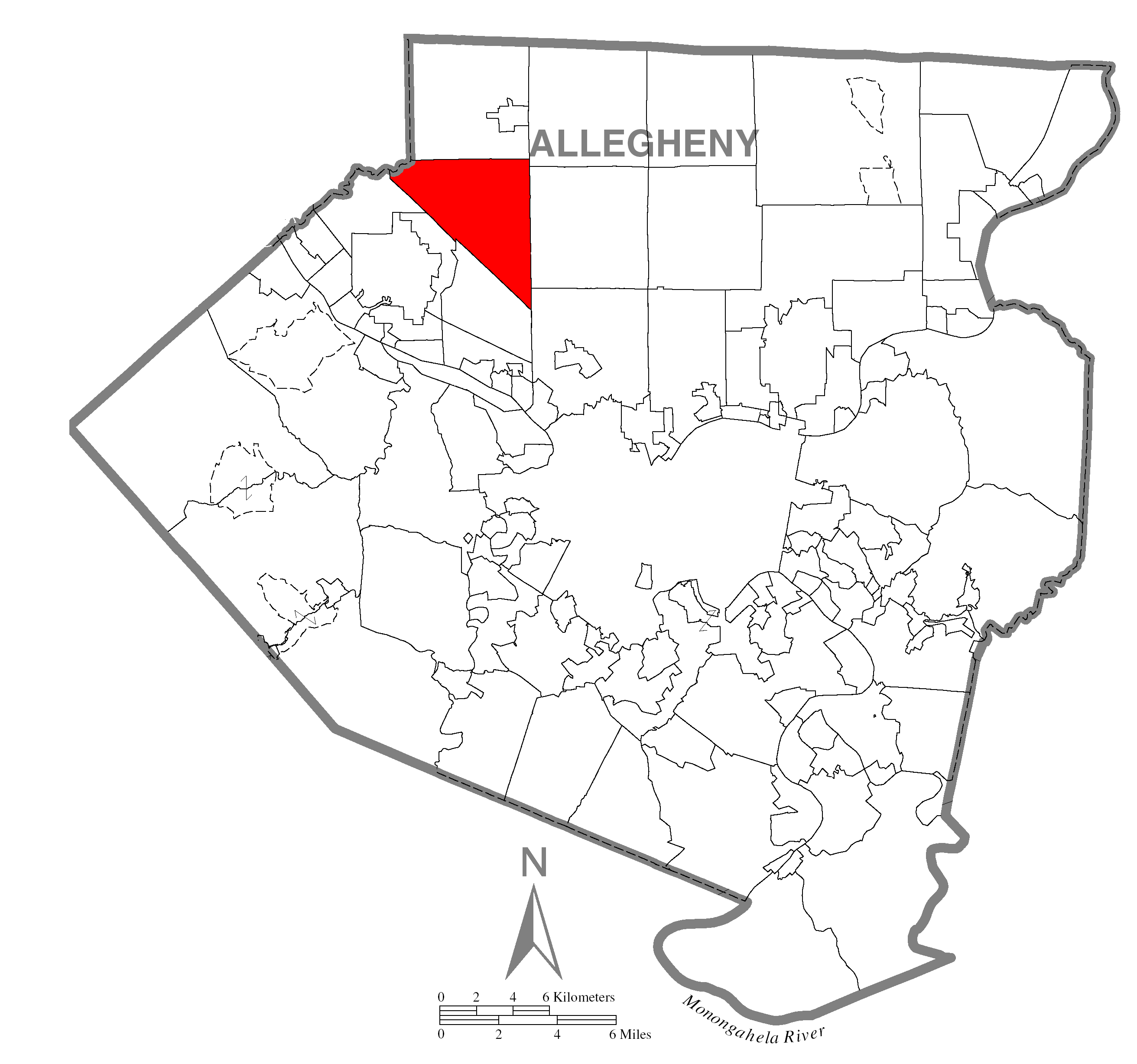 A map of Allegheny County showing Franklin Park, Pennsylvania (alternate) highlighted on the map.